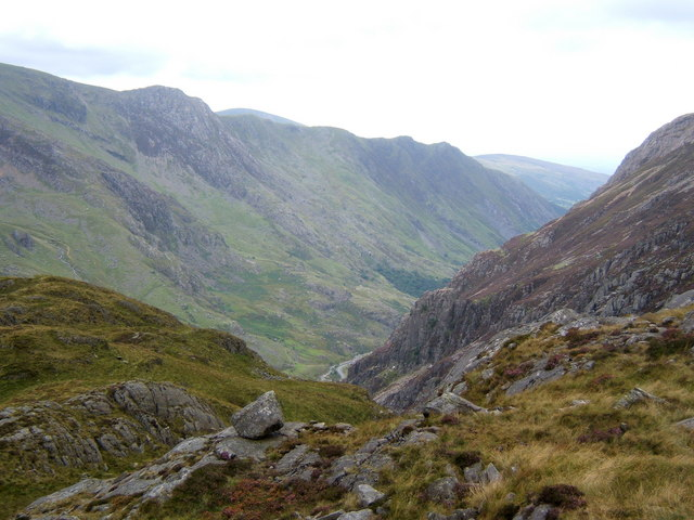 Slopes of Glyder Fawr, Afon Nant Peris far below